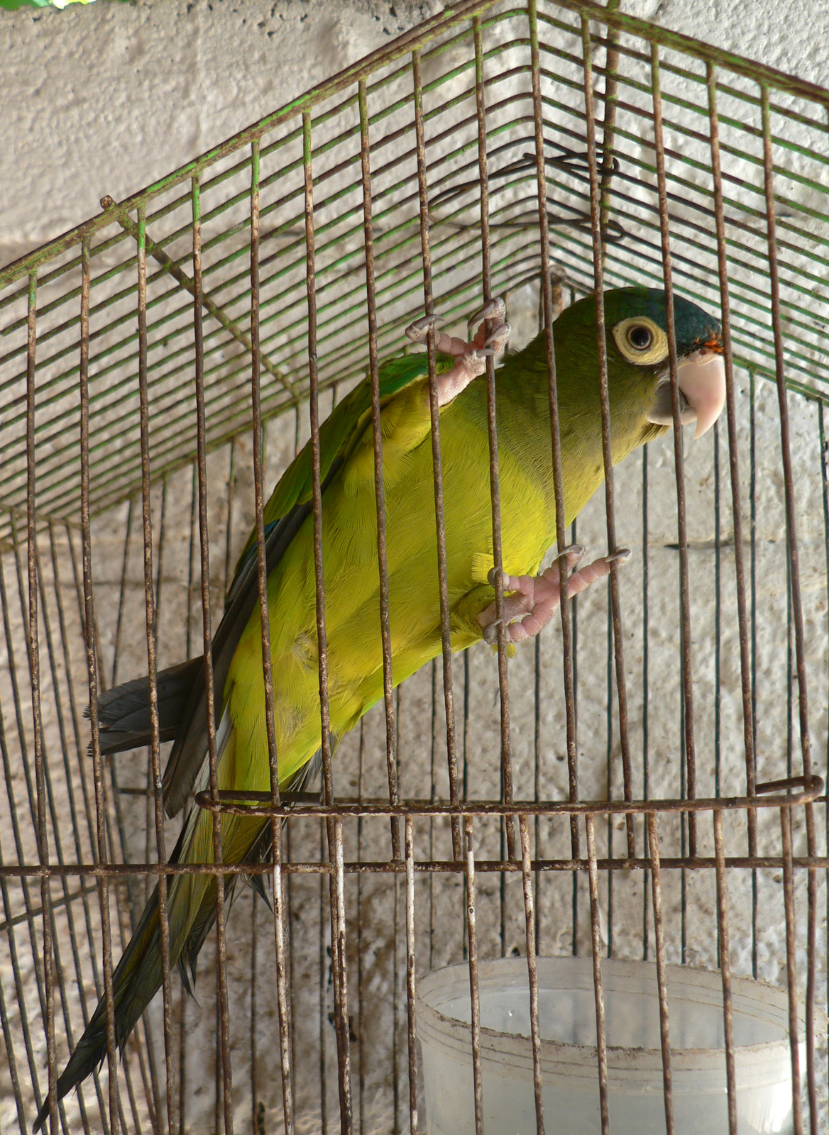 Orange-fronted Parakeet or Orange-fronted Conure (Aratinga canicularis) also known as the Half-moon Conure. Looks like a juvenile having only a little red/orange on its head.